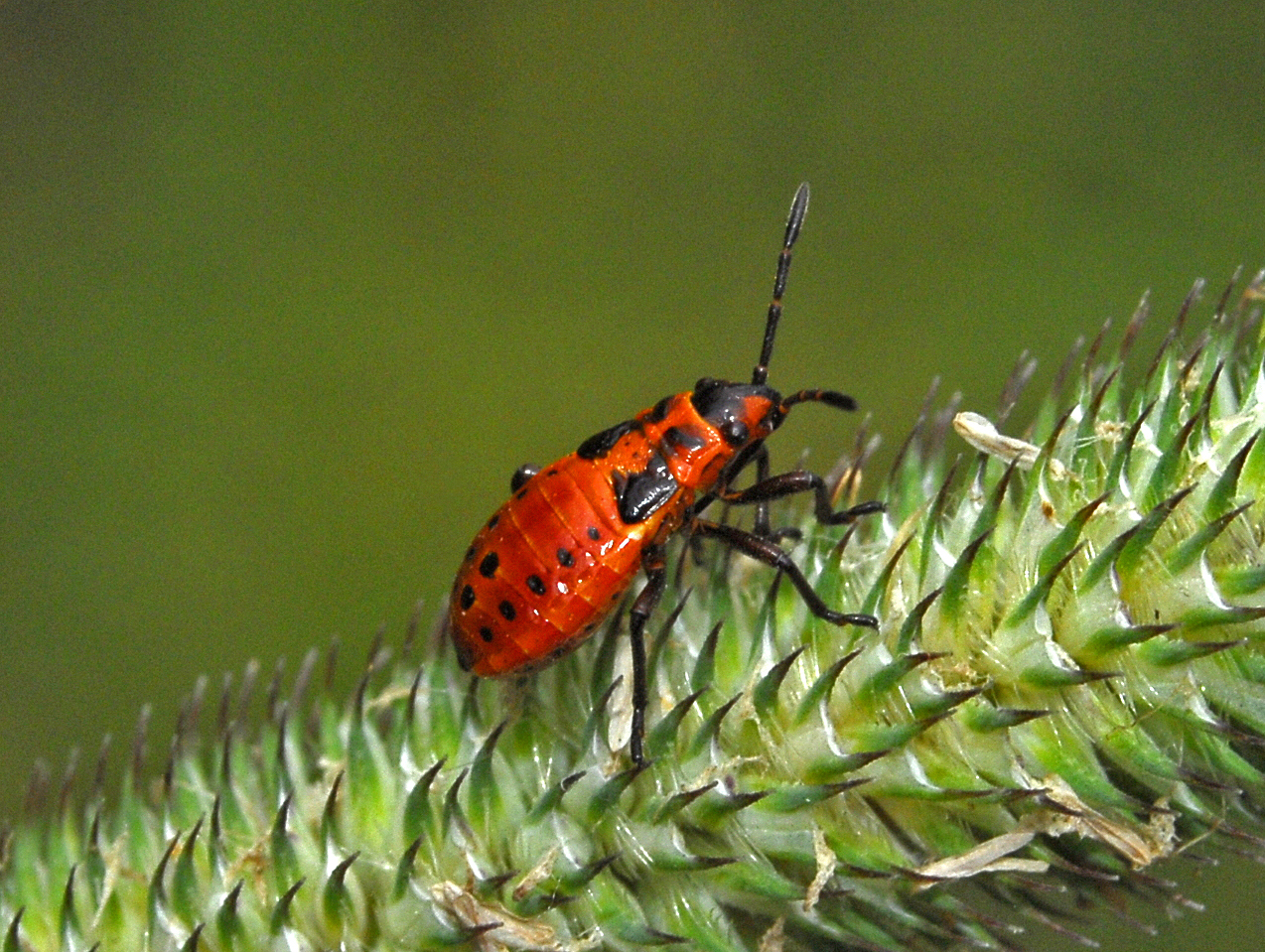 Lygaeus equestris, nymph. Val Veny, Aosta, Italy